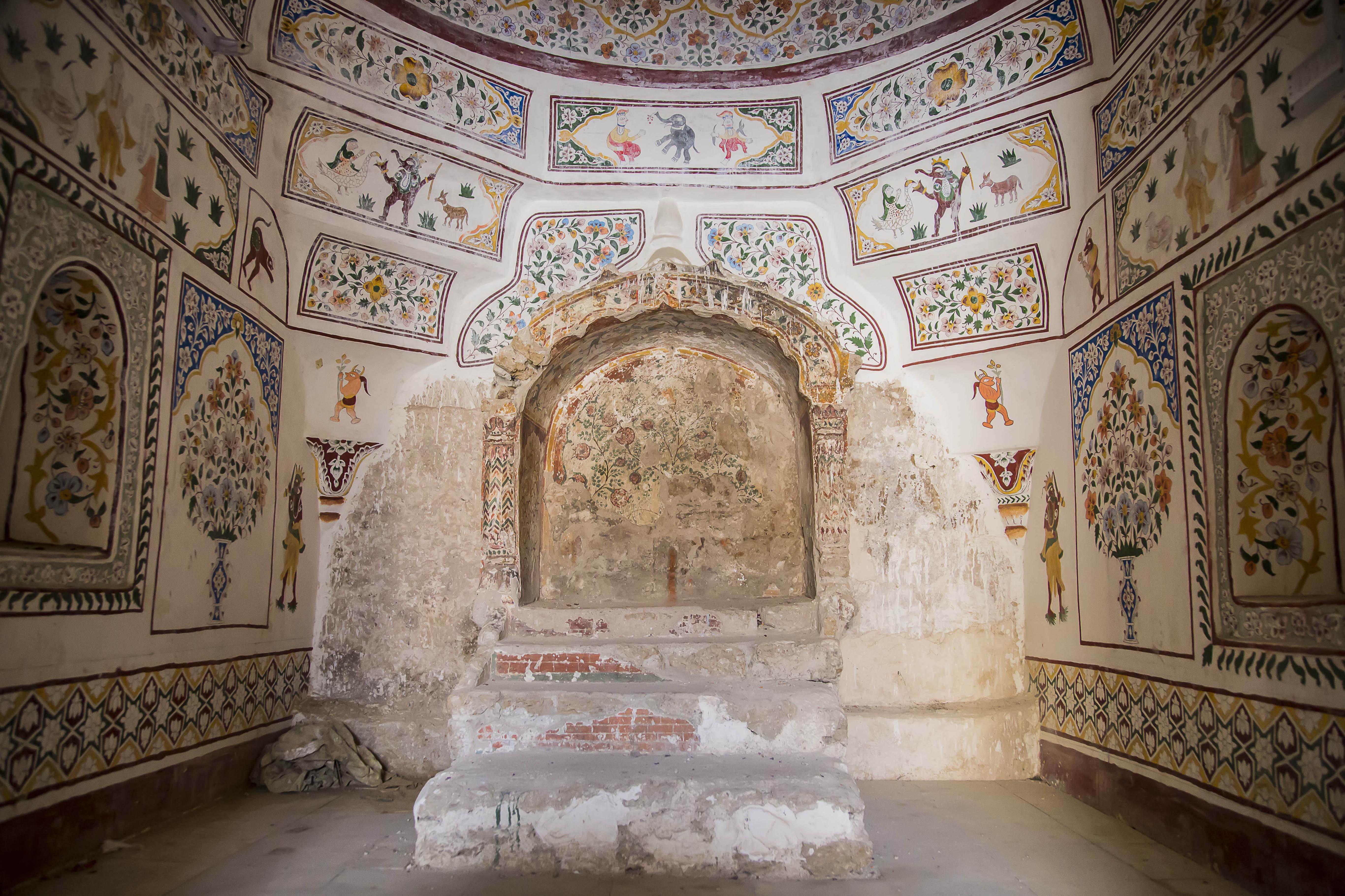 Ruined Buddhist Stupa and area around it This is a photo of a monument in Pakistan identified as the PB-37